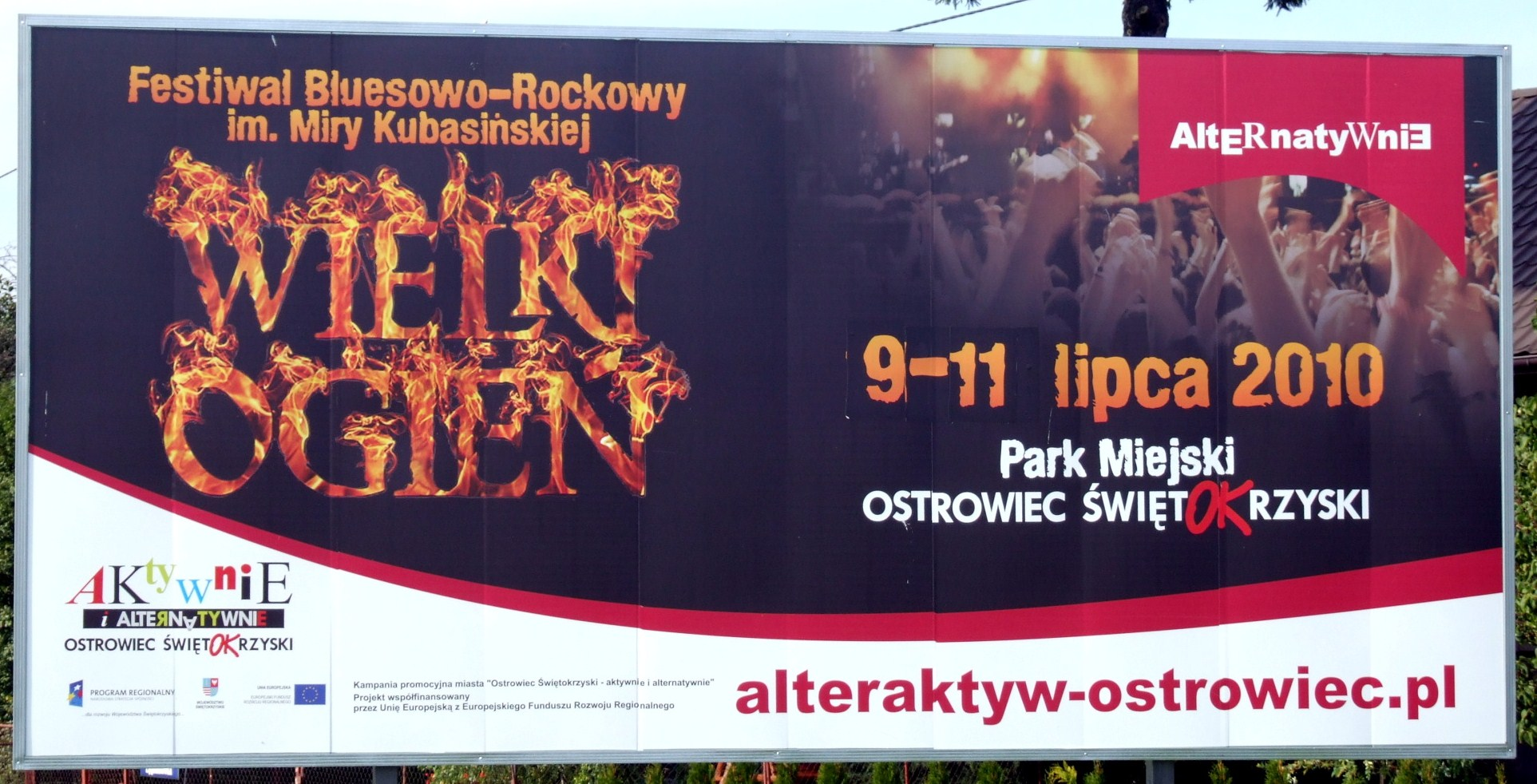 Billboard of Wielki Ogień (eng. Great Fire) - blues-rock festival in Ostrowiec Swietokrzyski, Poland